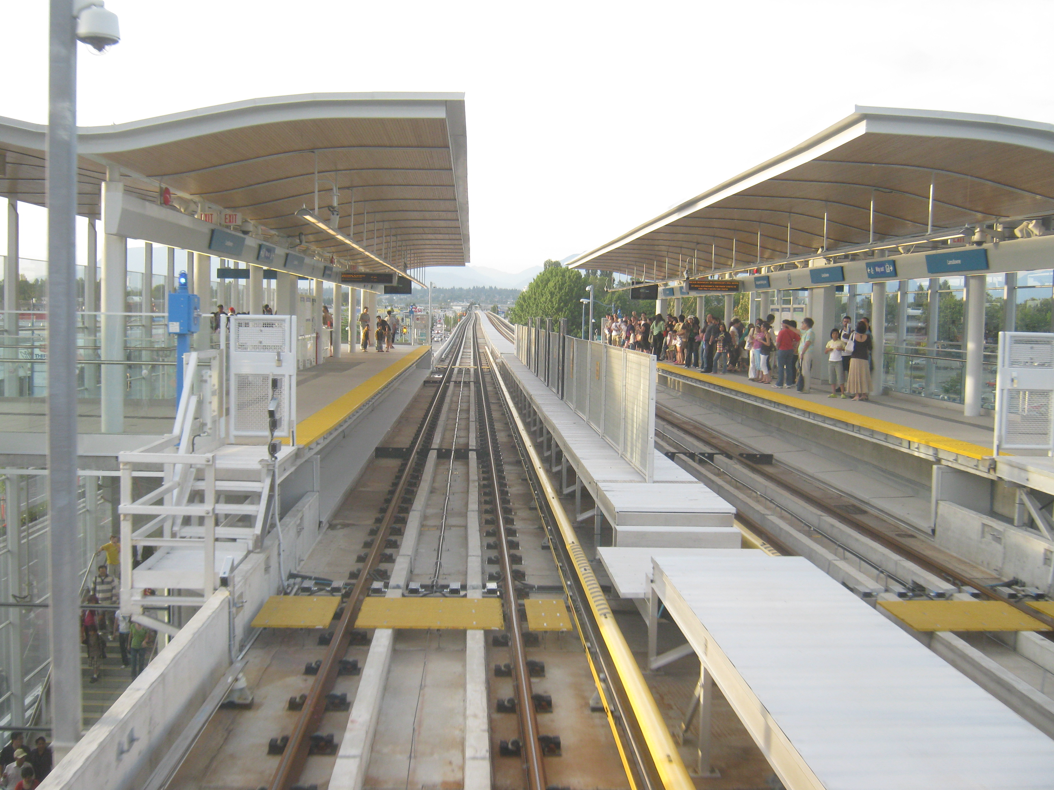 A picture of Lansdowne Station